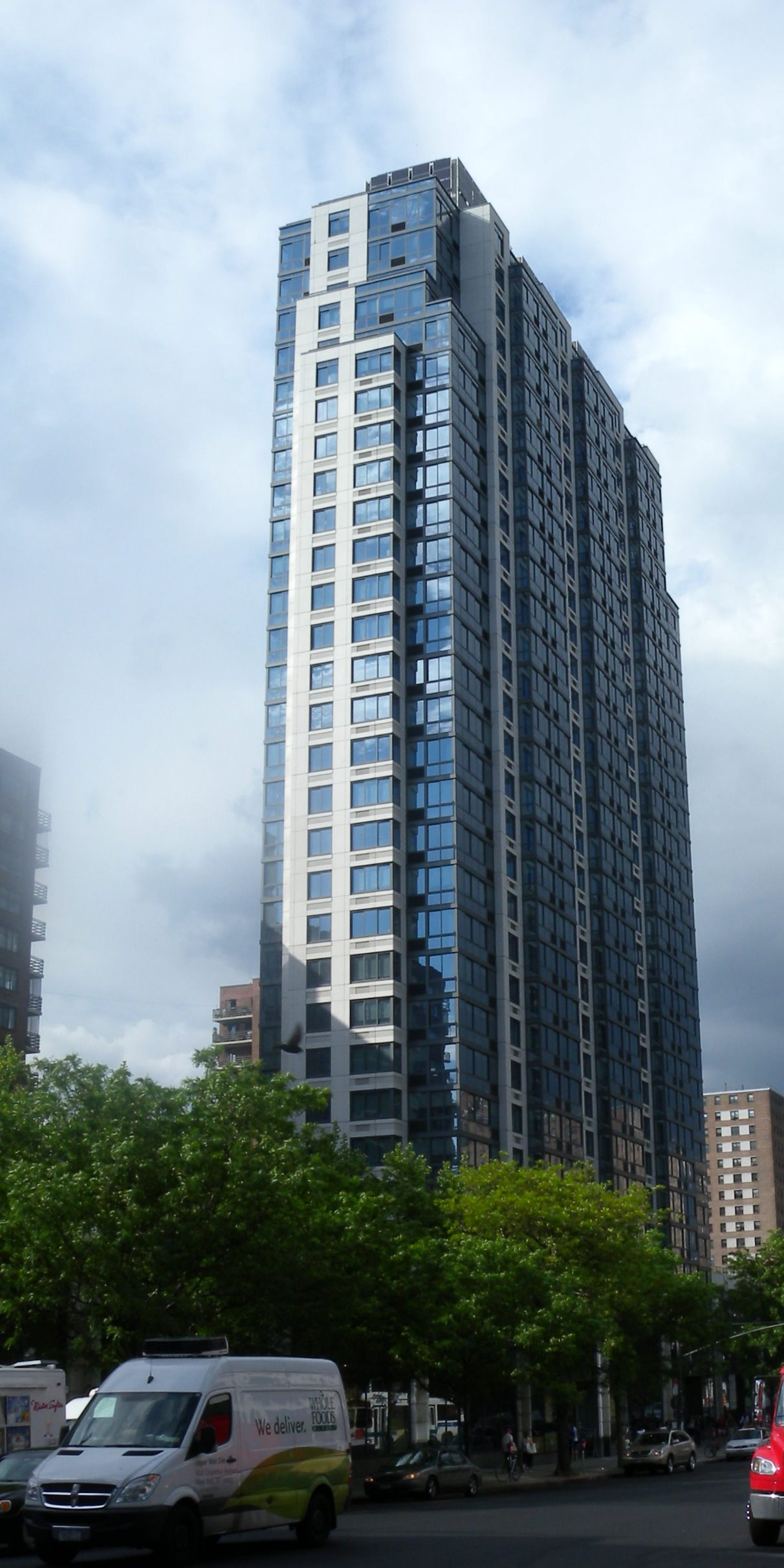 Looking north at the new 808 Columbus Avenue on a mostly sunny afternoon on my way to Wikimeetup.